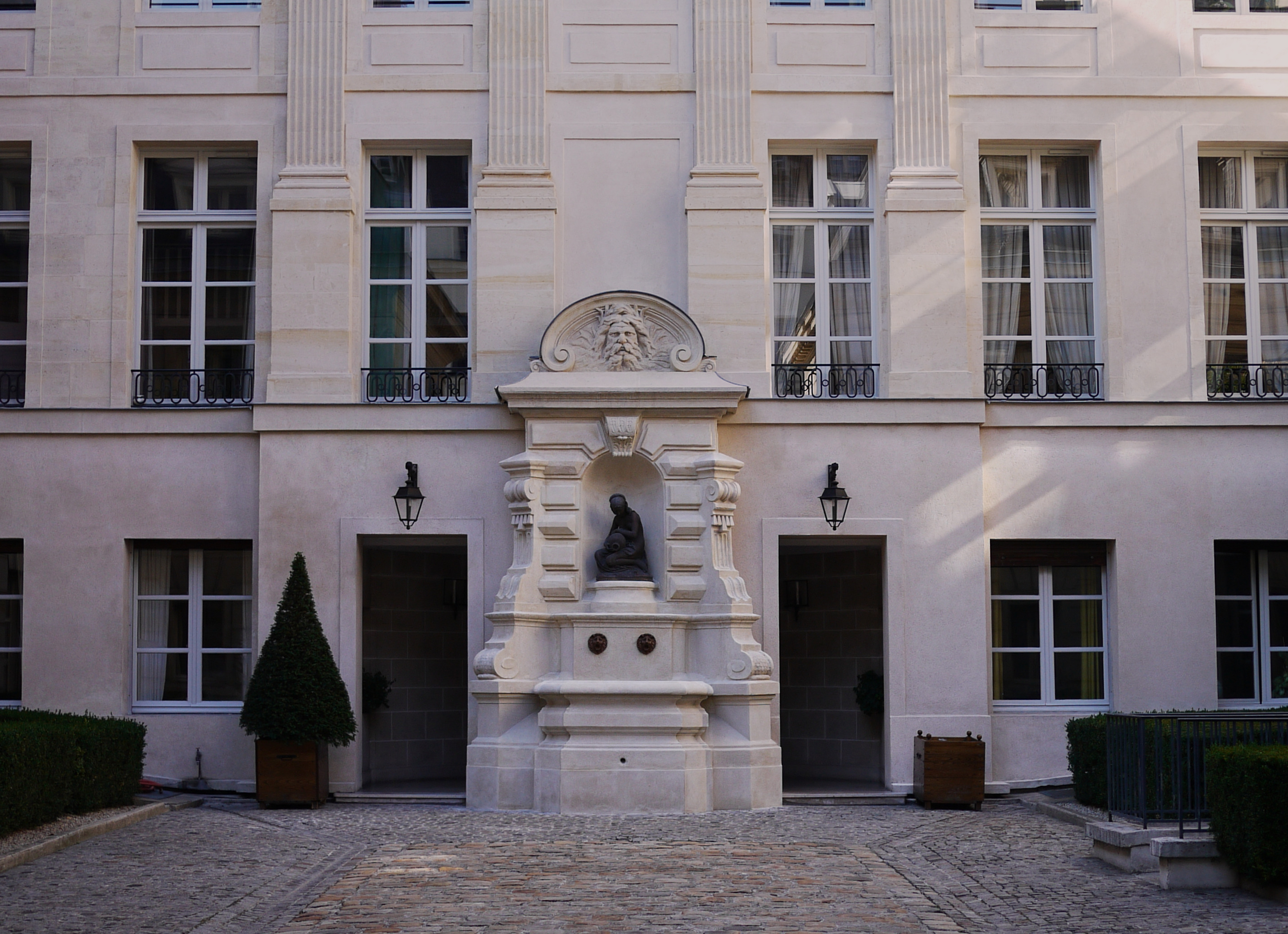 Hôtel Colbert de Villacerf, Paris IVe arrondissement. Close up View of the Fountain.